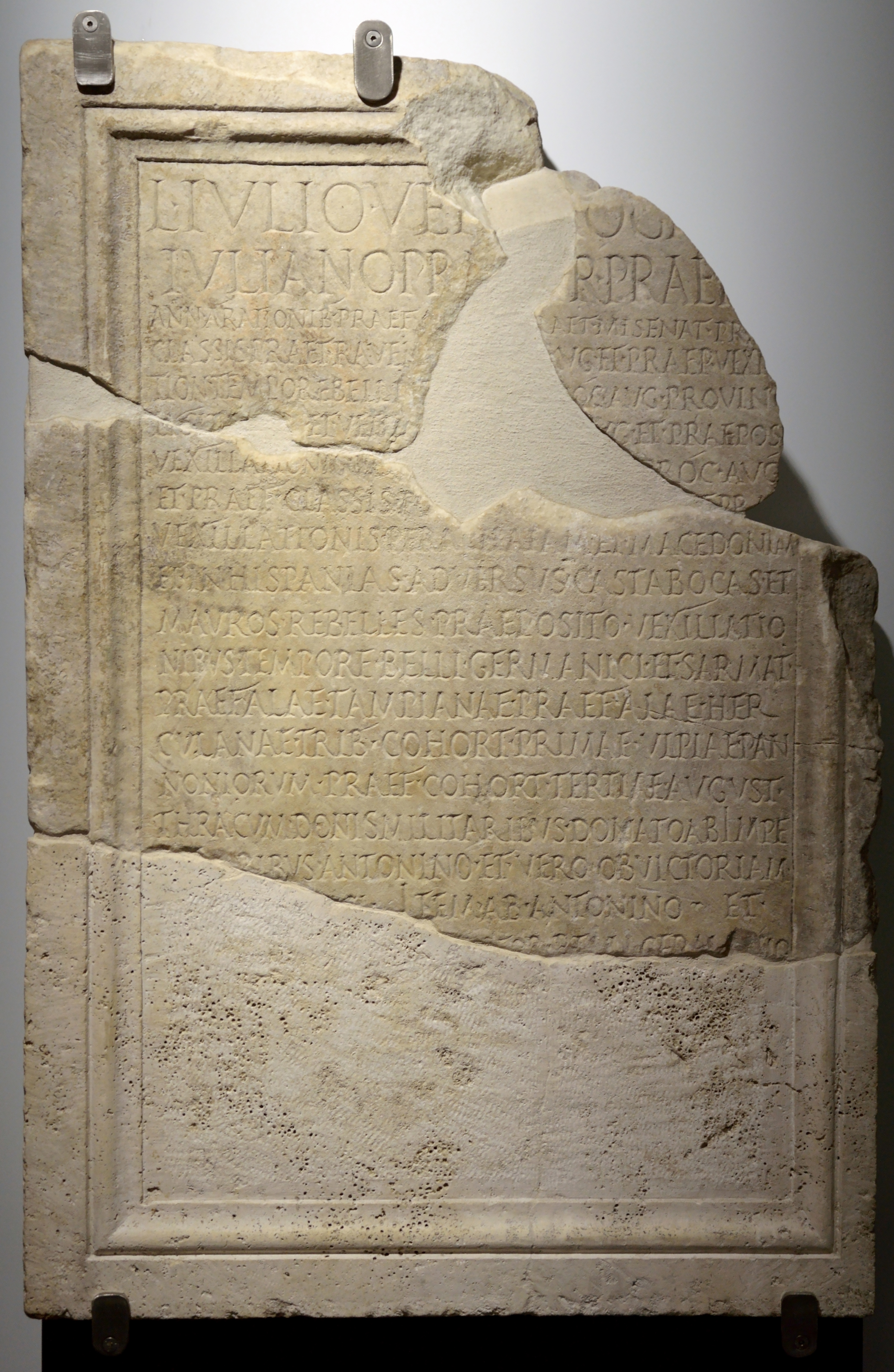 Plate in Museo delle Terme di Diocleziano